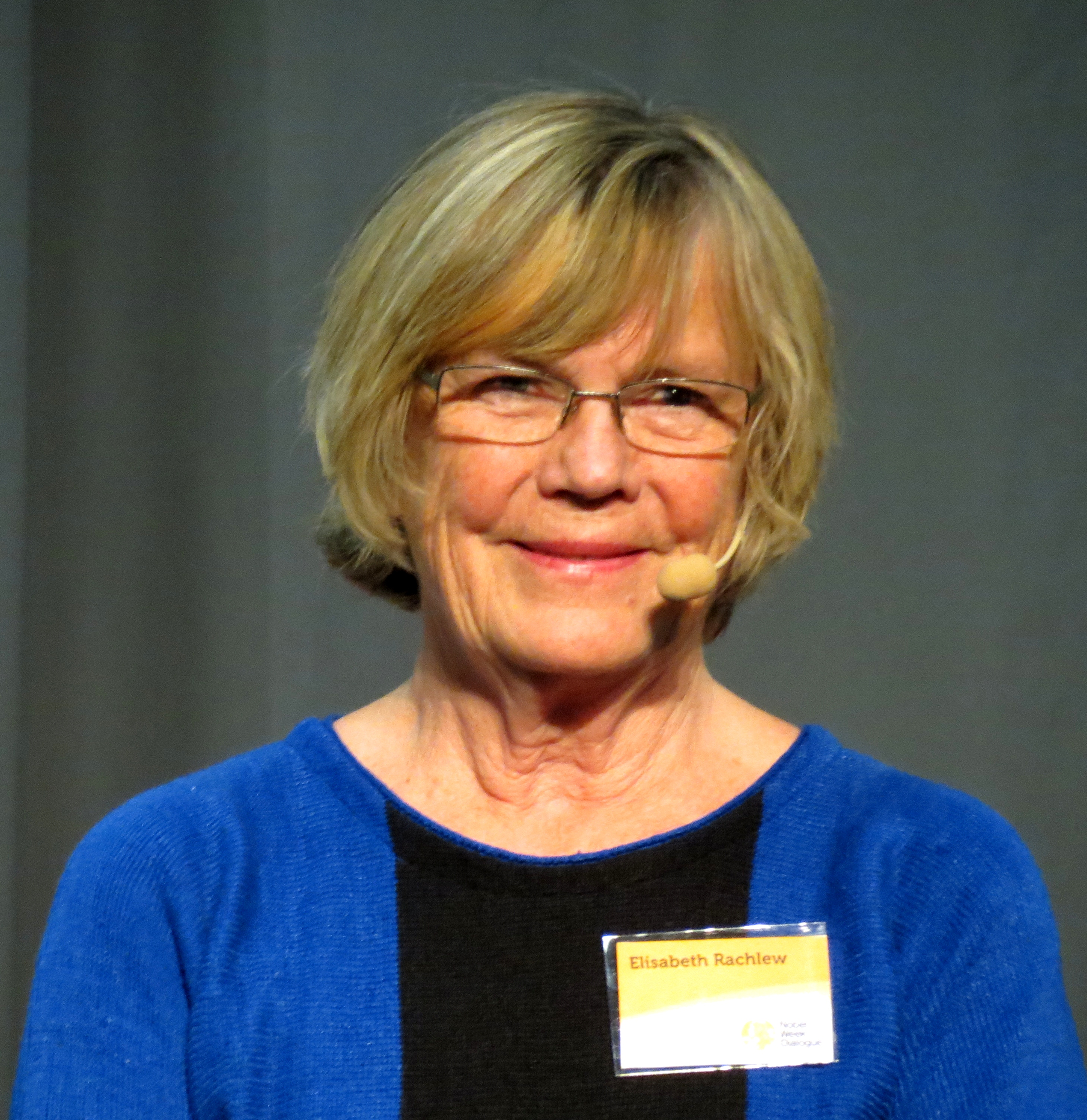 Elisabeth Rachlew, professor in Applied Atomic and Molecular Physics at KTH (the Royal Institute of Technology) in Stockholm. She co-chairs the European Academies Science Advisory Council study on sustainable energy supply and consumption. Here speaking at the 2013 Nobel Week Dialogue in Gothenburg, Sweden.